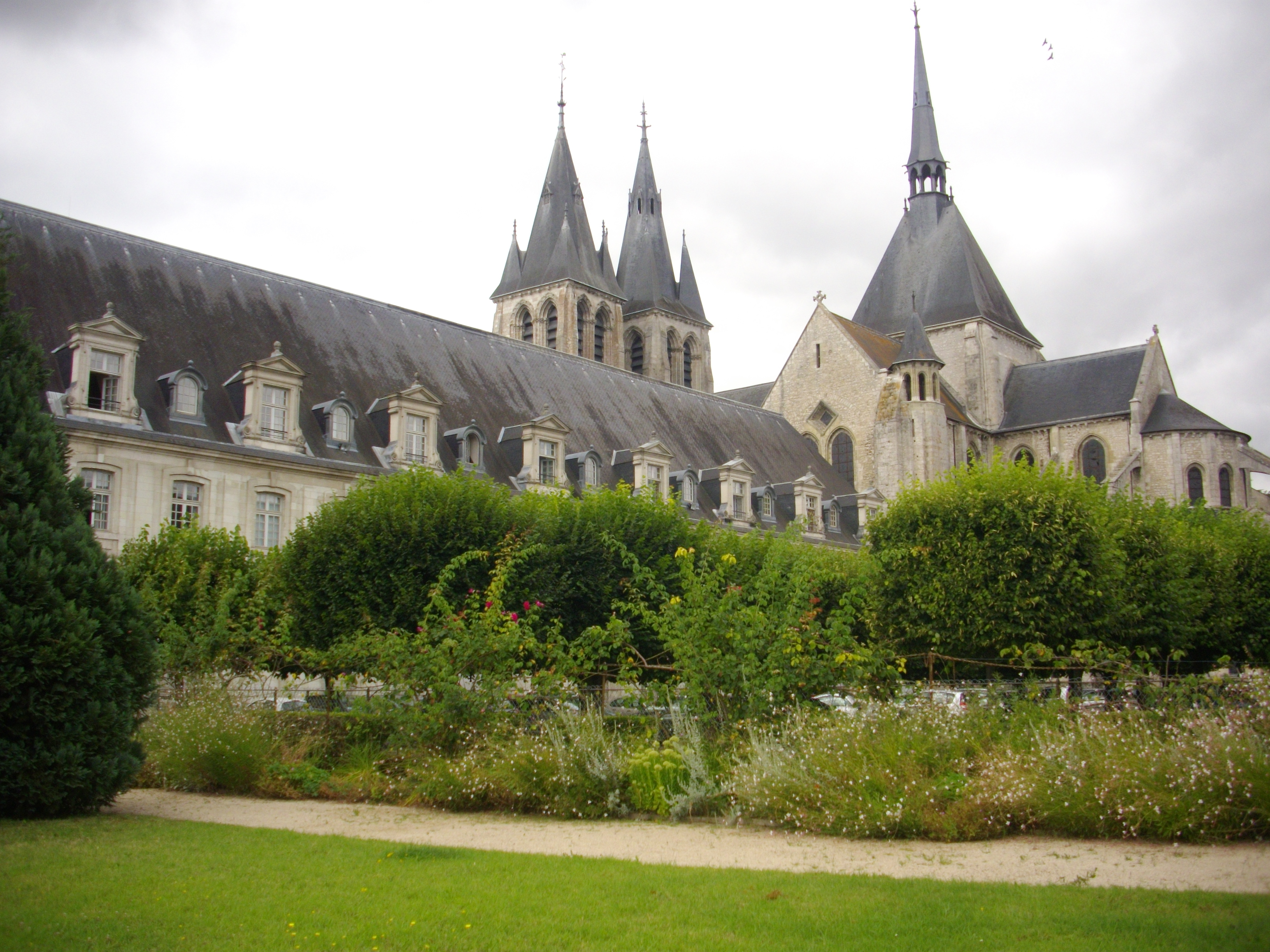 Former Saint Lomer abbey of Blois (Loir-et-Cher, France), north-east facade ; apse of Saint-Nicholas church This building is indexed in the Base Mérimée, a database of architectural heritage maintained by the French Ministry of Culture, under the references PA00098334 and PA00098343 .